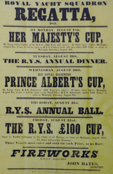 1851 flyer for Royal Yacht Squadron regatta